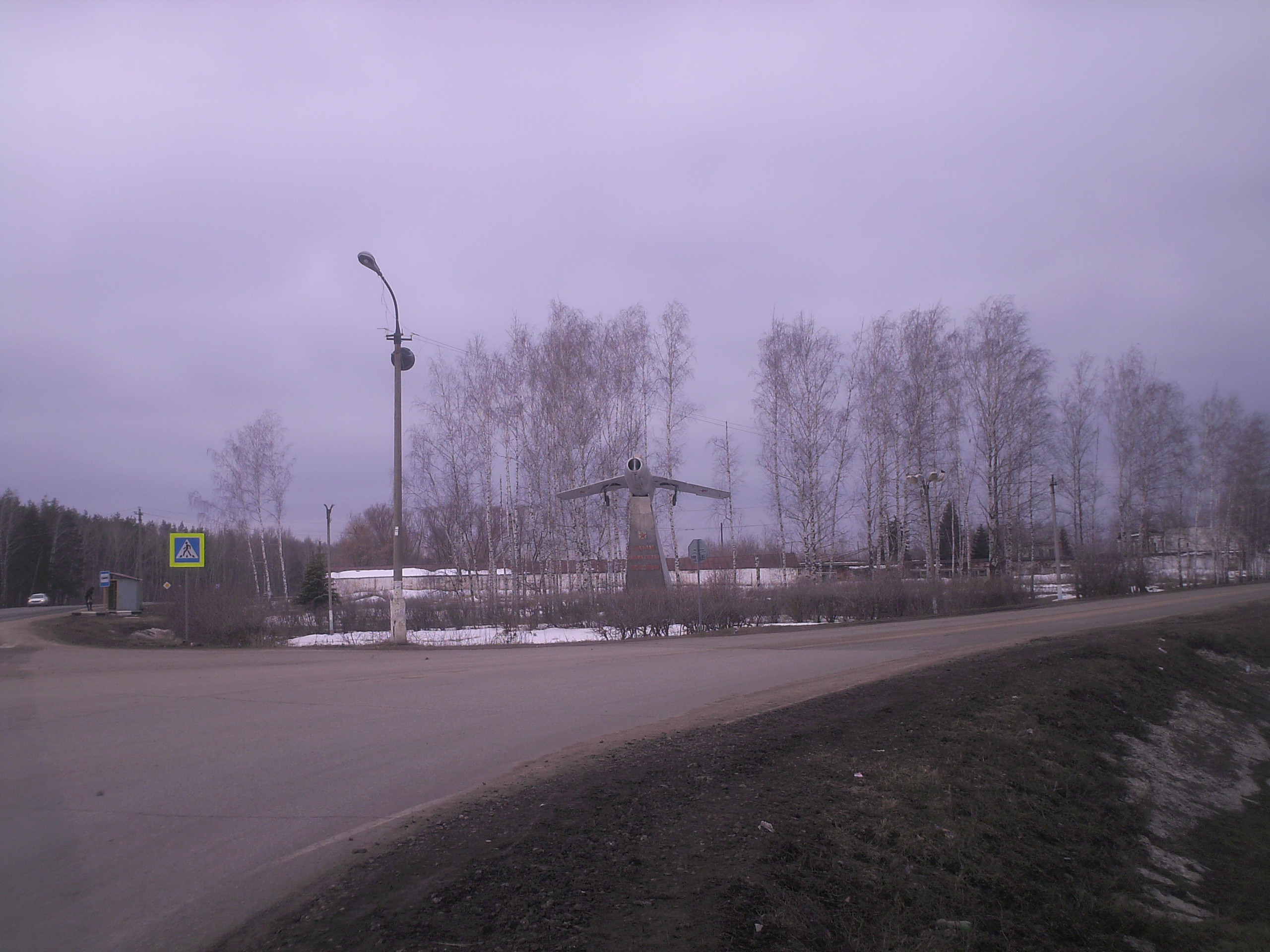 The MiG-15UTI installed at the entrance to the settlement of Kolyshley in the Penza region of Russia. Monument to soldiers airmen 1941-1945